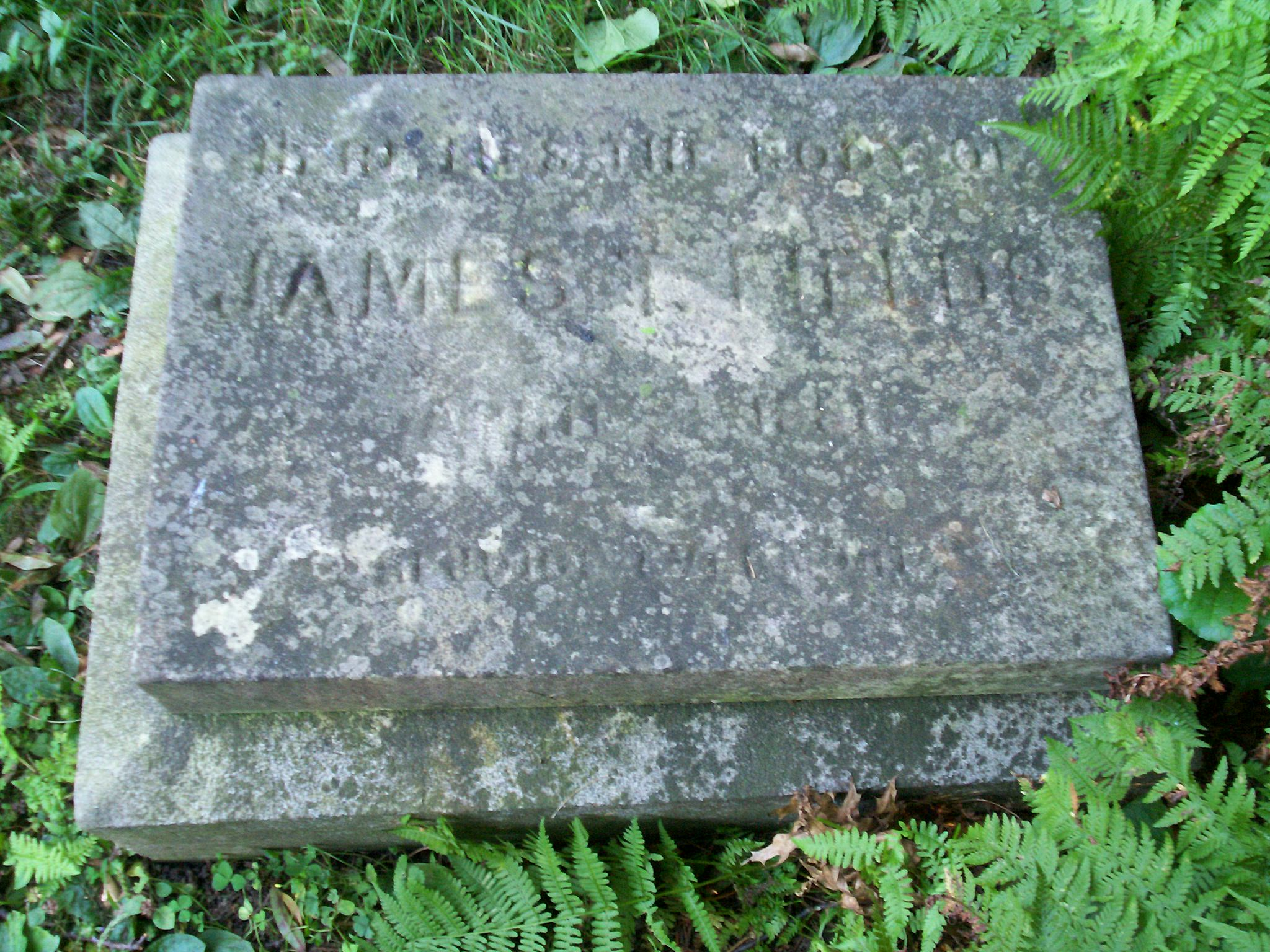 Grave of American publisher and editor James Thomas Fields in Mount Auburn Cemetery - Cambridge, Massachusetts.